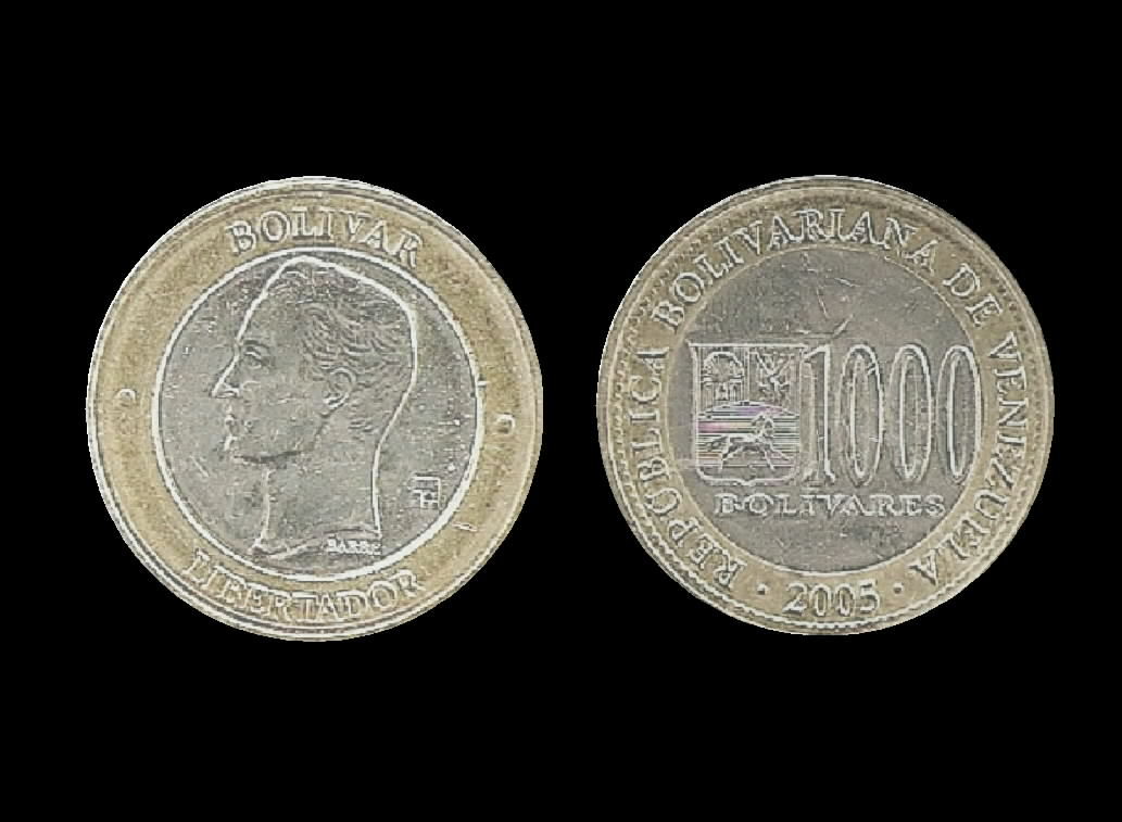 Coin of 1000 Bolívares